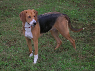 An American Foxhound